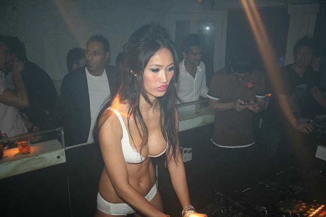 Angie Vu Ha DJs during the Singapore Grand Prix 2011